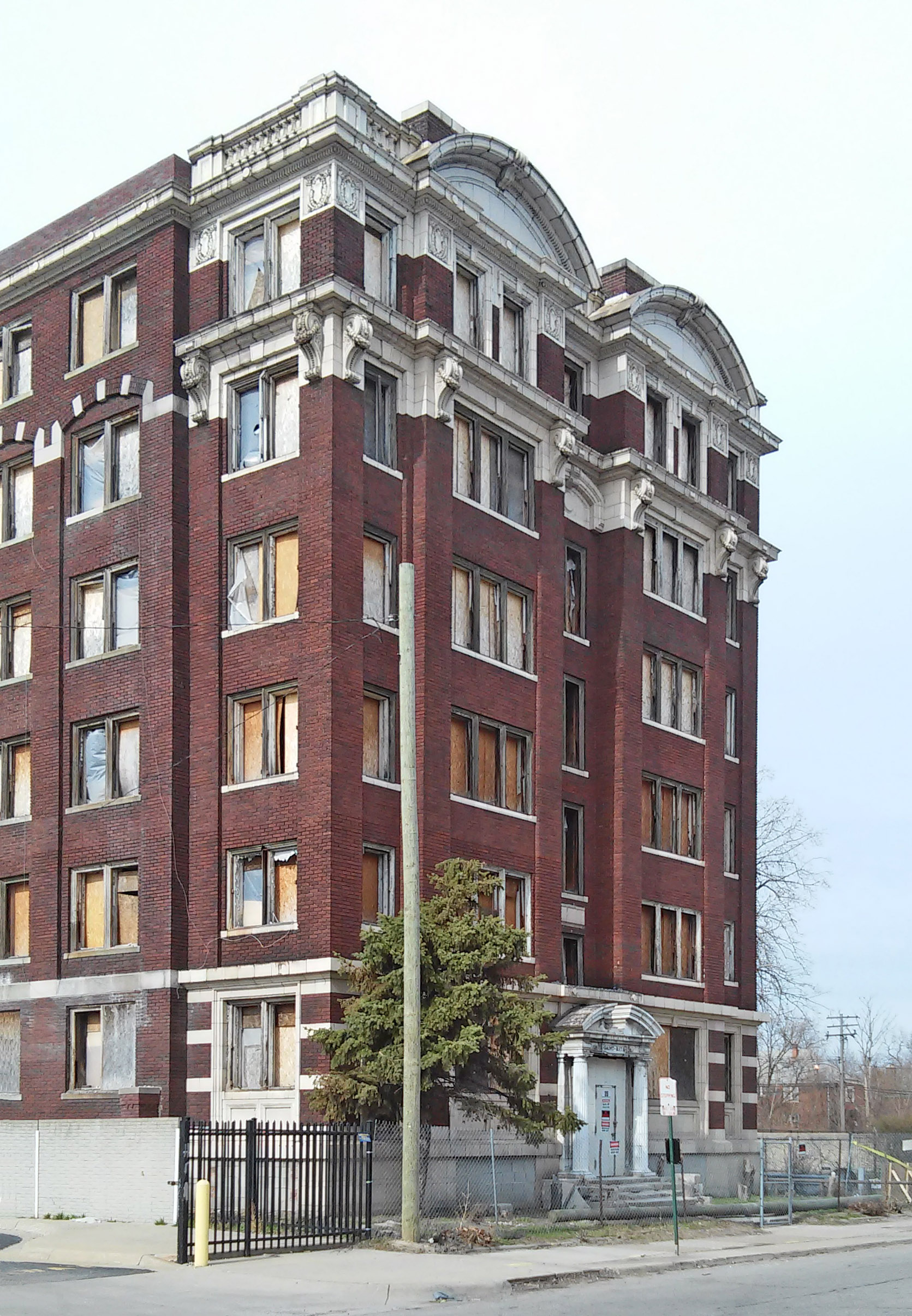 Saint Rita Apartments Detroit, Owen and Woodward